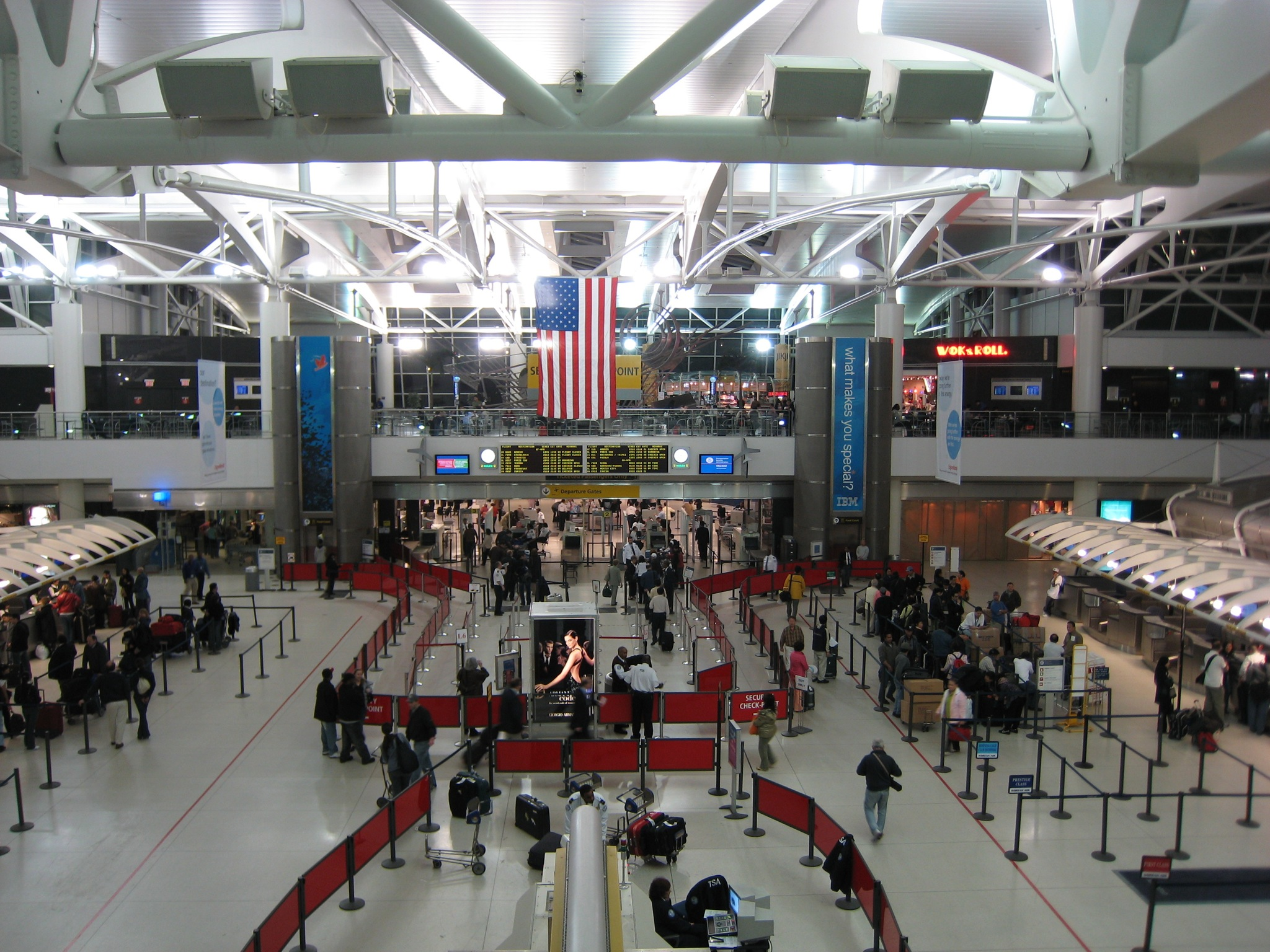 JFK Airport, Terminal 1